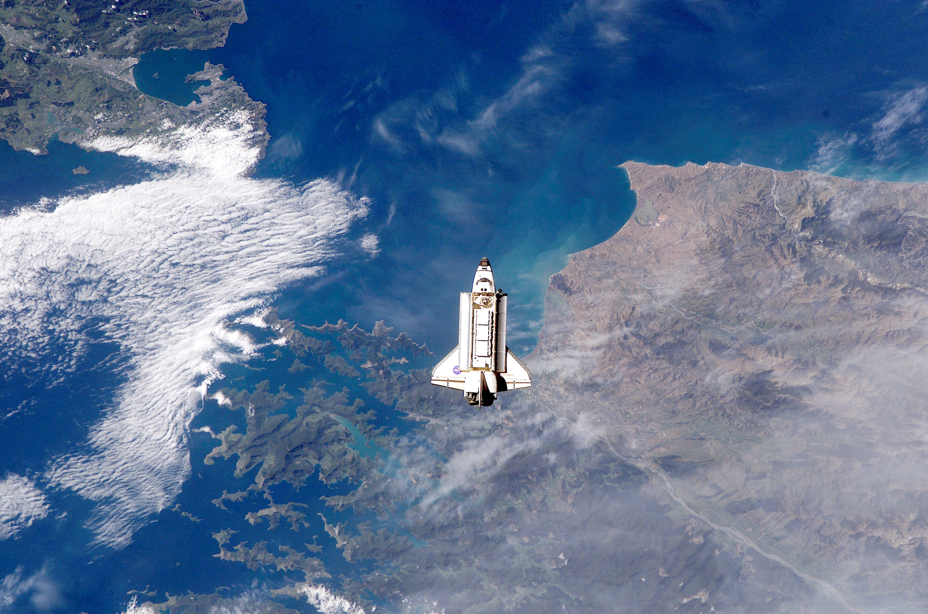 NASA image, showing the Space Shuttle over the Marlborough Sounds, New Zealand (below left) and the Wellington region (top left).